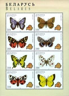 Stamp of Belarus